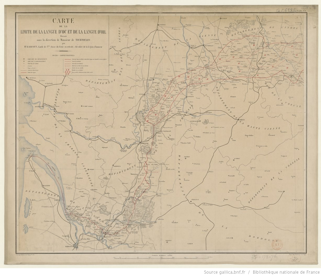 Map of the limits between the Occitan language and the French language according to Tortolon